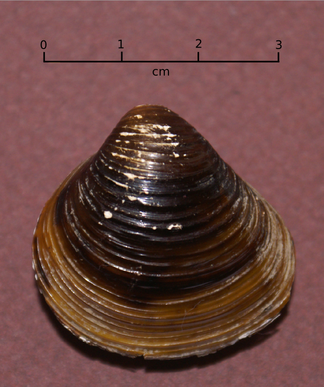 Corbicula fluminea